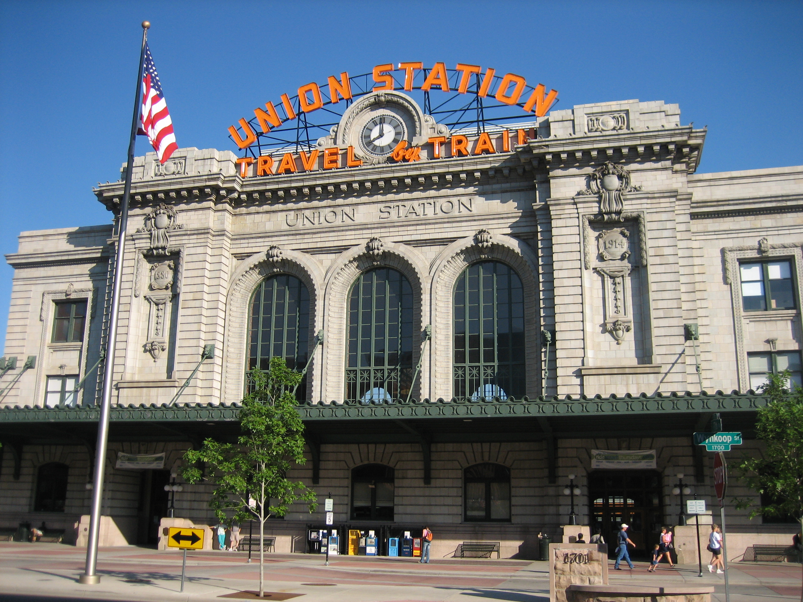 Denver Union Station, 7/15/2006, 7:01 am Ski Train to depart soon. Picture I photographed. Public Domain.